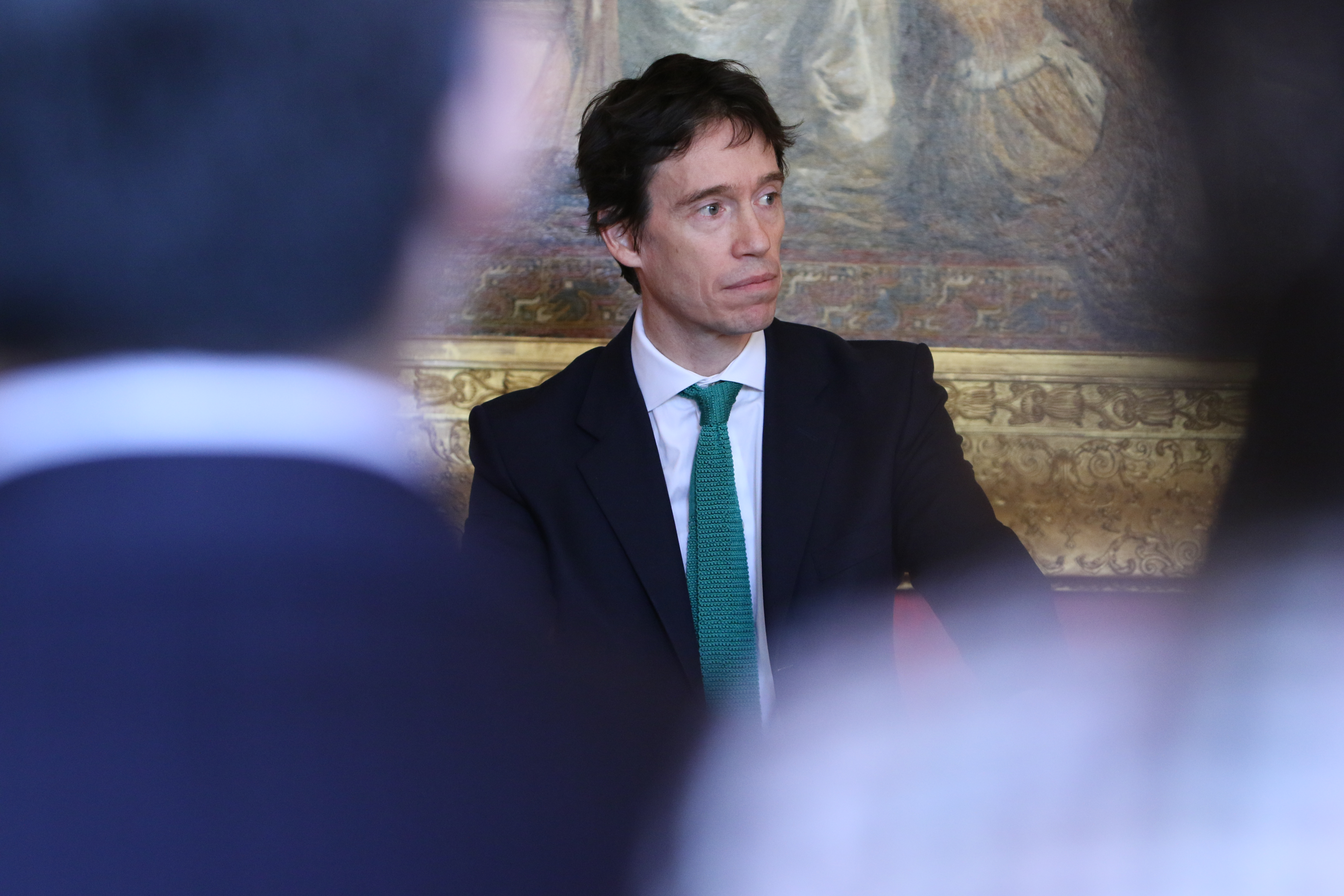 Rory Stewart, Minister of State for the Department for International Development and Minister of State for the Foreign and Commonwealth Office speaking at the launch event on 30 October 2017 for the London Illegal Wildlife Trade (IWT) Conference 2018.